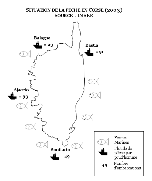 Fisheries in Corsica